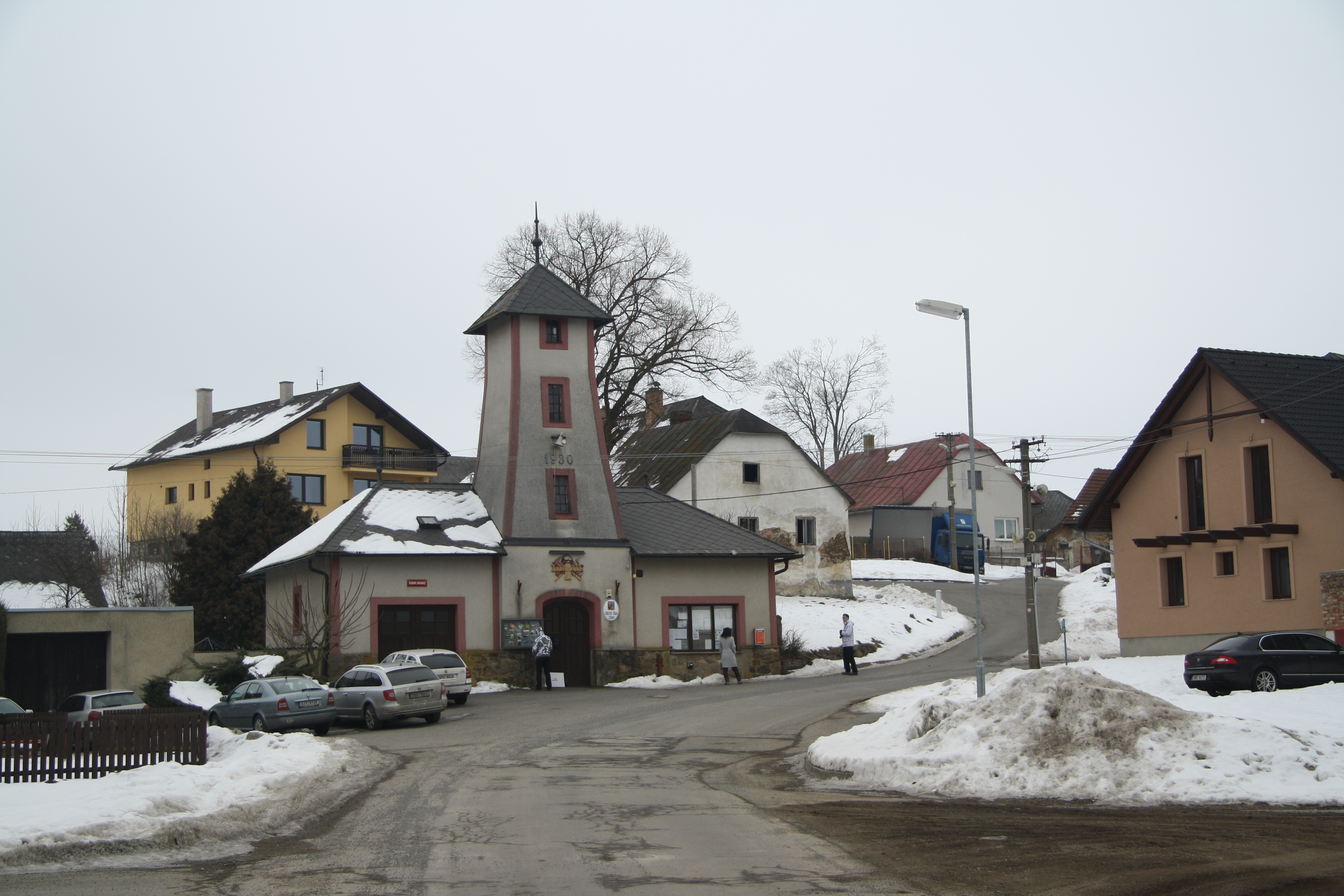 Center of Čížov, Jihlava District.